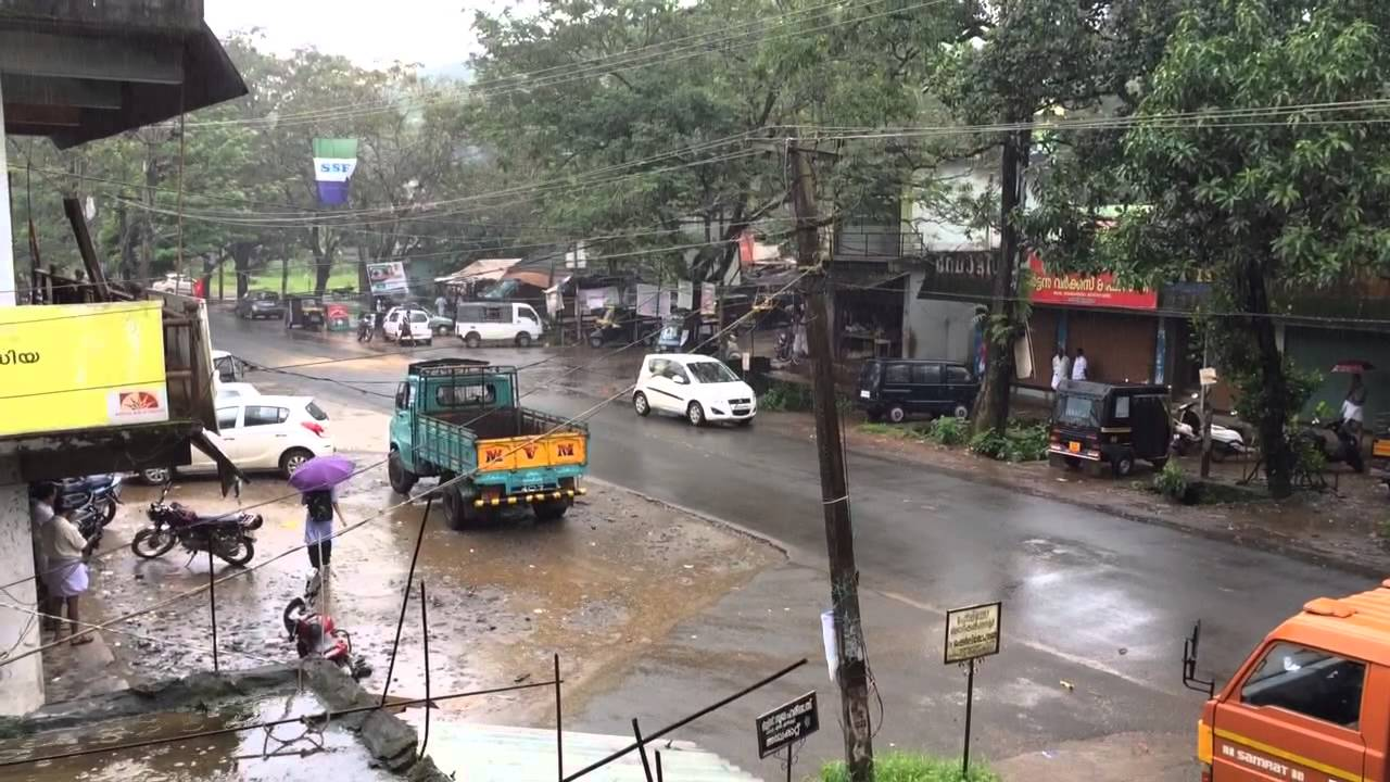 Valillapuzha town